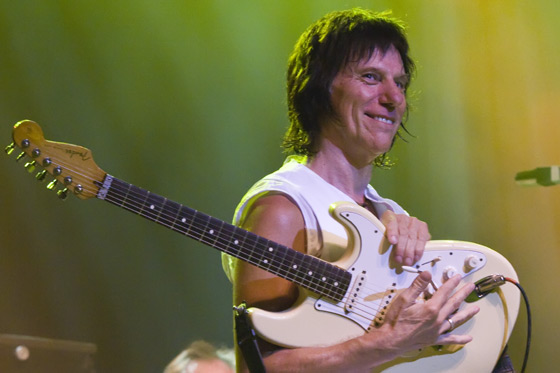 Jeff Beck at the Enmore Theatre Sydney, Australia See the full gallery here: [1]